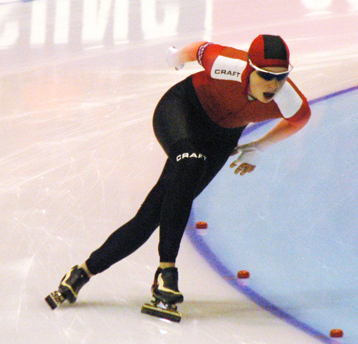 Anna Rokita (AUT) during the 1500 meters at the European Allround Speed Skating Championship 2009 in Heerenveen, the Netherlands